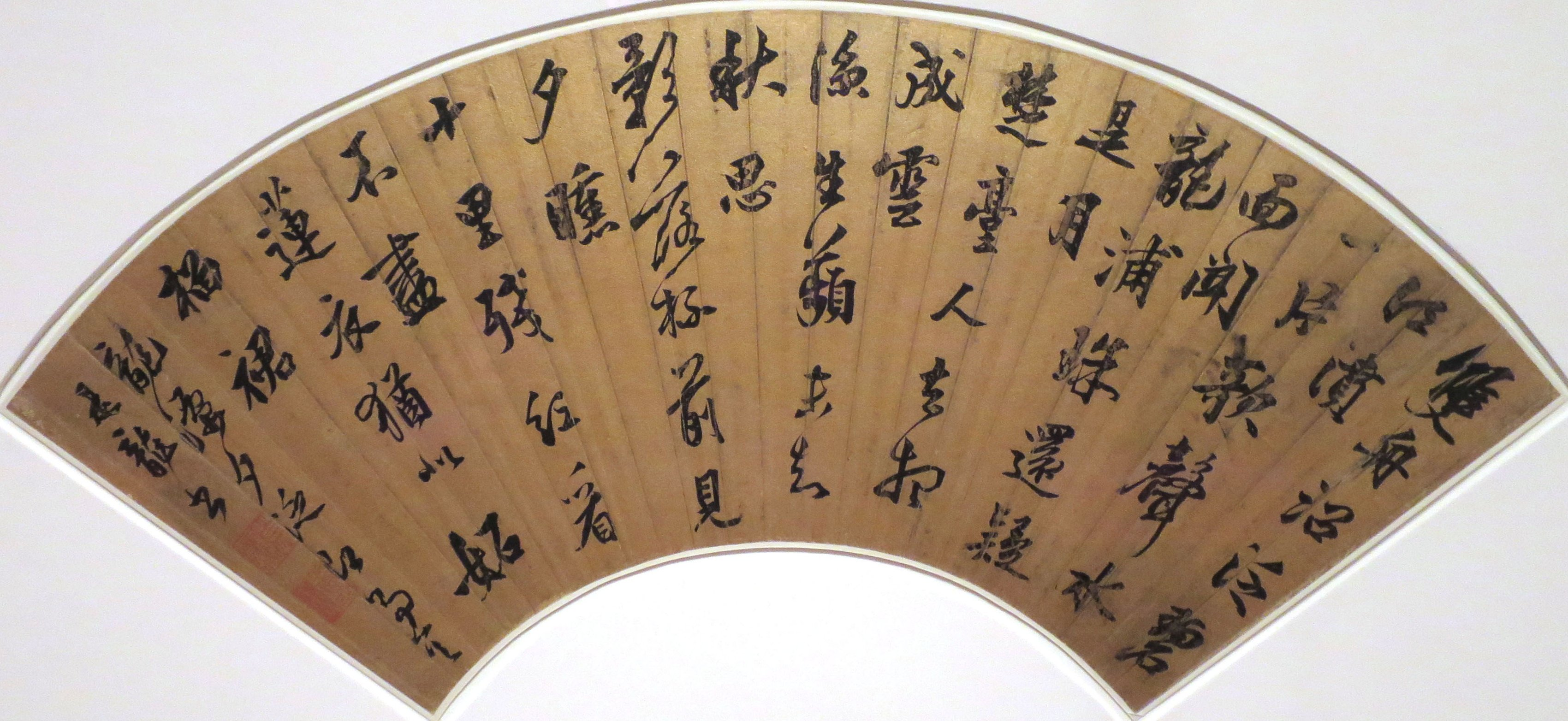 Calligraphy on fan by Mo Shilong, China, Ming dynasty, 16th century, ink on gold paper, Honolulu Museum of Art, accession 4019.1